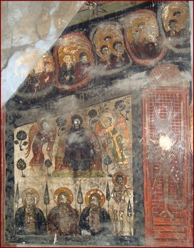 Paradise, fresco in Saint Nicholas Karavida Church